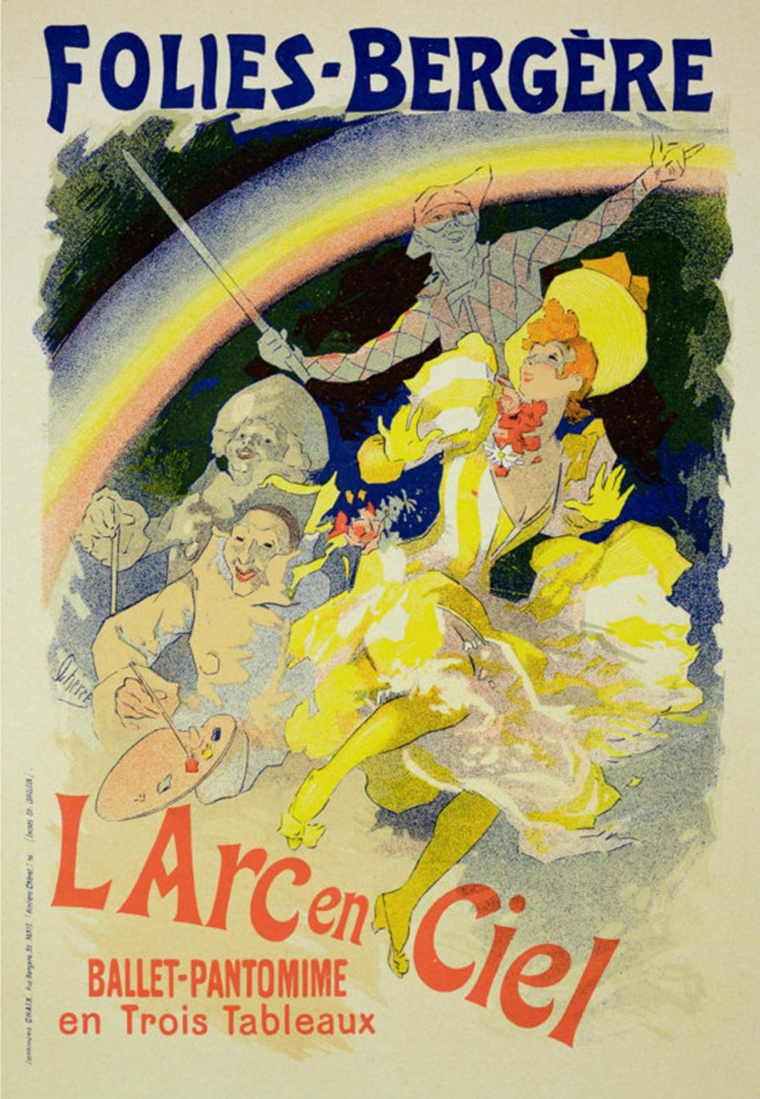 The Rainbow